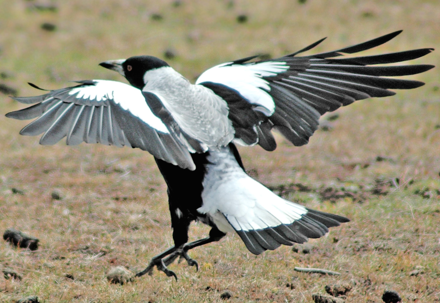 Tasmanian Magpie, Gymnorhina tibicen hypoleuca, female, just landing on a marsupial lawn.